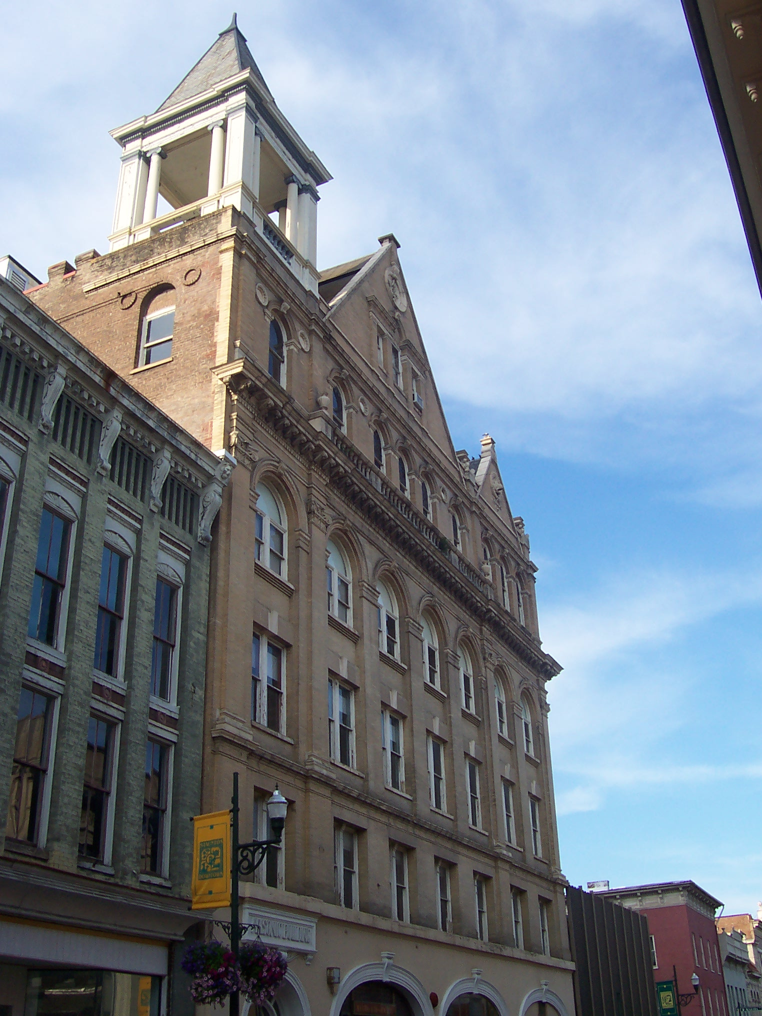 Masonic Building, former Town Hall, of Staunton, Virginia, United States.